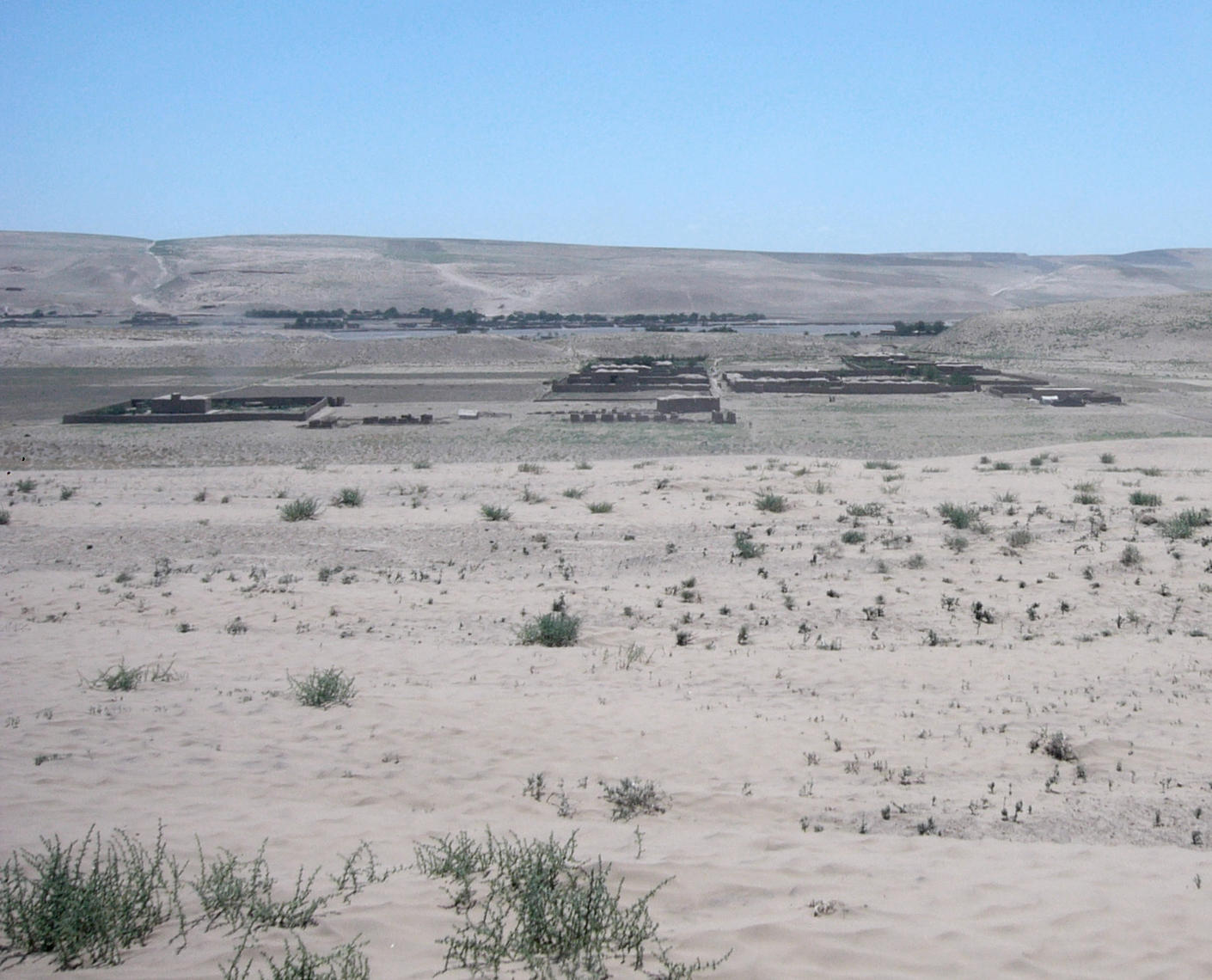 Farms north of Herat, Afghanistan